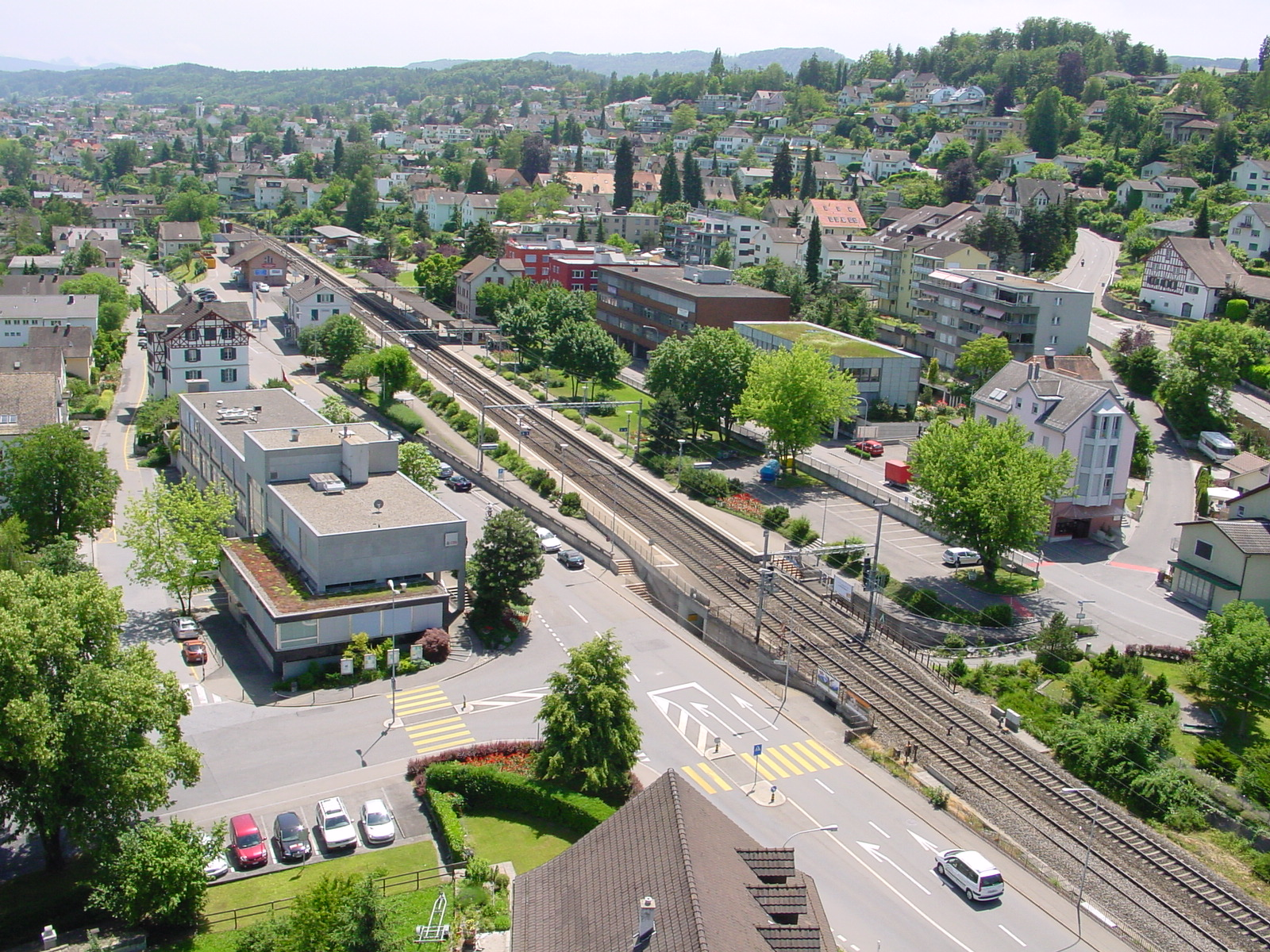 Picture take from the steeple of the church in direction to the railroad station